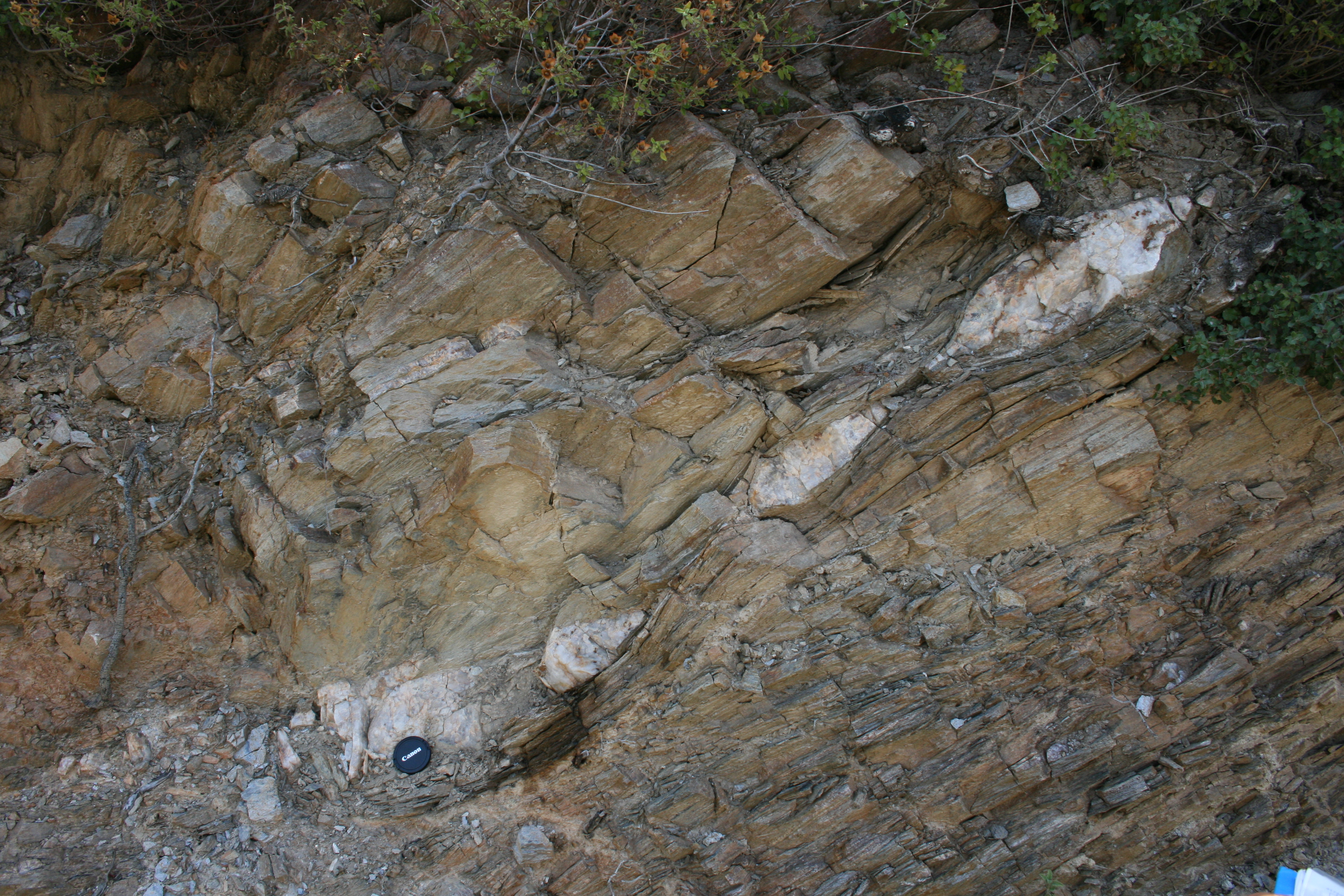 Boudins, Samos Island, Greece